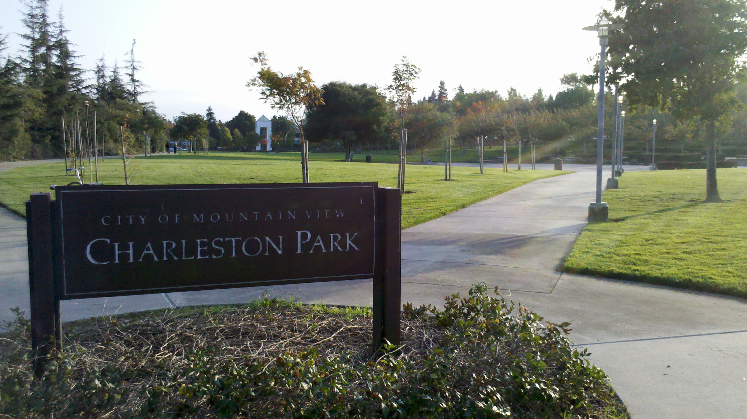 Entrance plate of the Charleston Park located in the Mountain View, Santa Clara County, California.